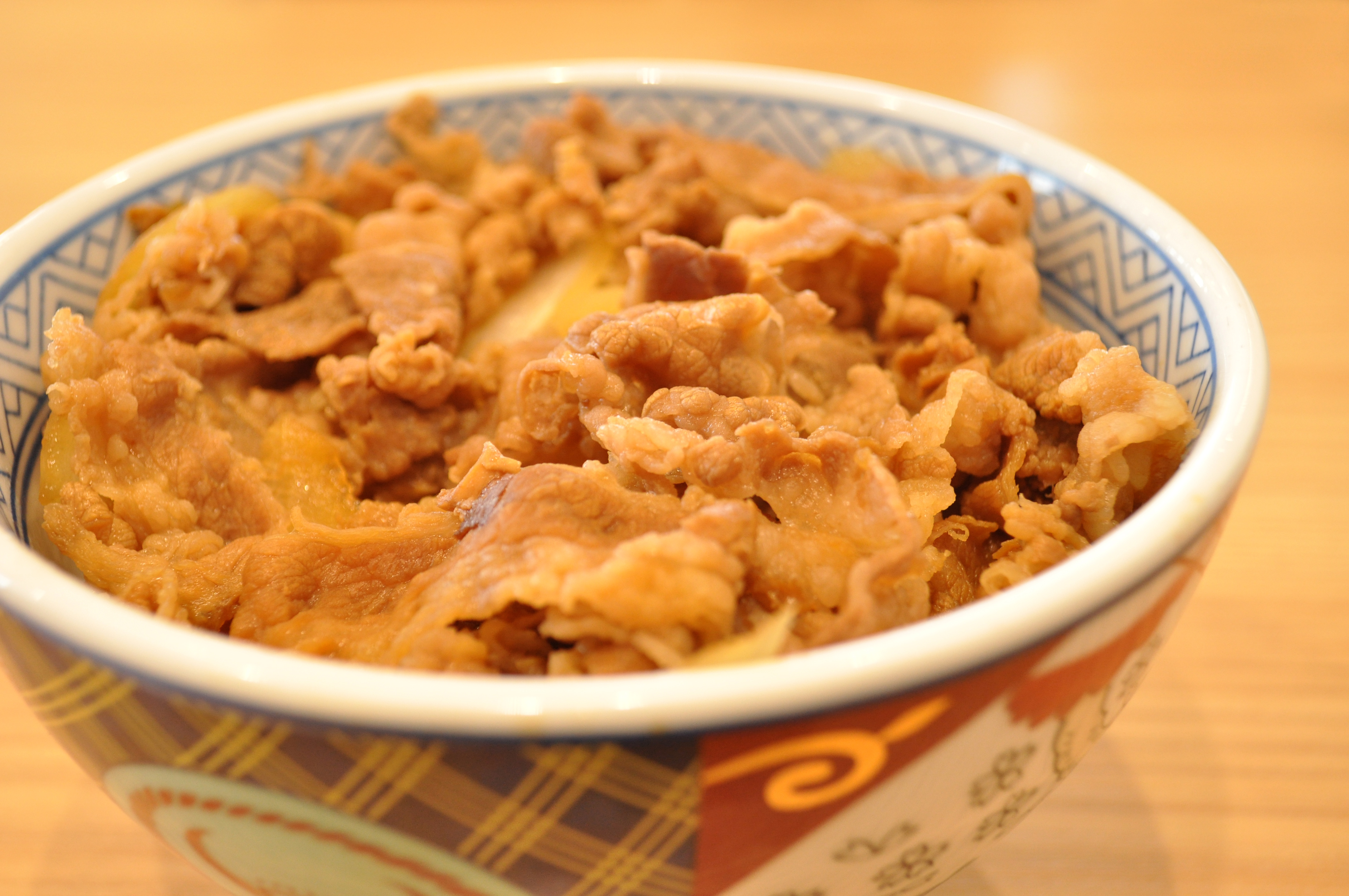 Yoshinoya Beef Bowl, regular size.